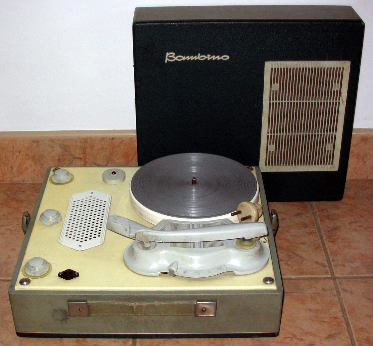 Gramophone "Bambino" (Poland, 1967)